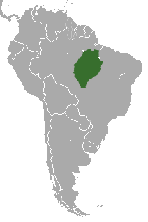 Red-bellied Titi (Callicebus moloch) range